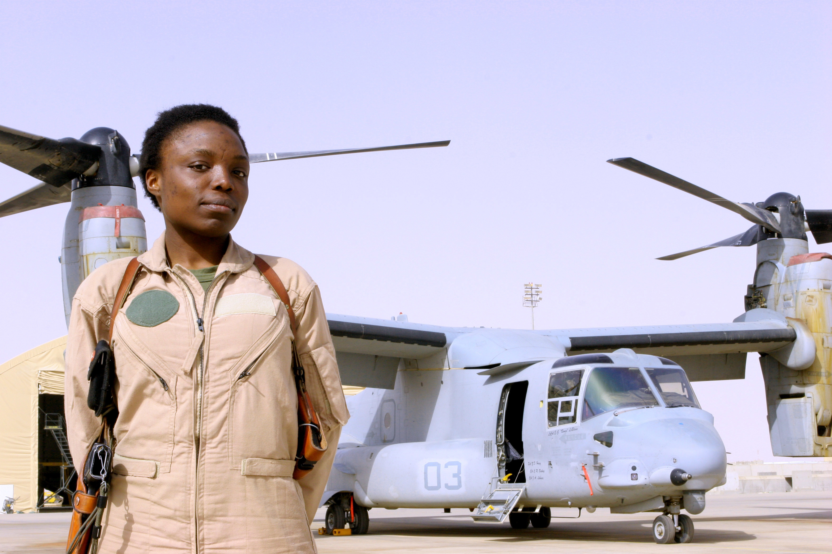 Capt. Elizabeth A. Okoreeh-Baah, the first female MV-22 Osprey pilot, stands on the flight line after a combat operation March 12, 2008. The Nashville, Tenn., native spent five years flying the CH-46E Sea Knight before transitioning to the corps' newest aircraft.